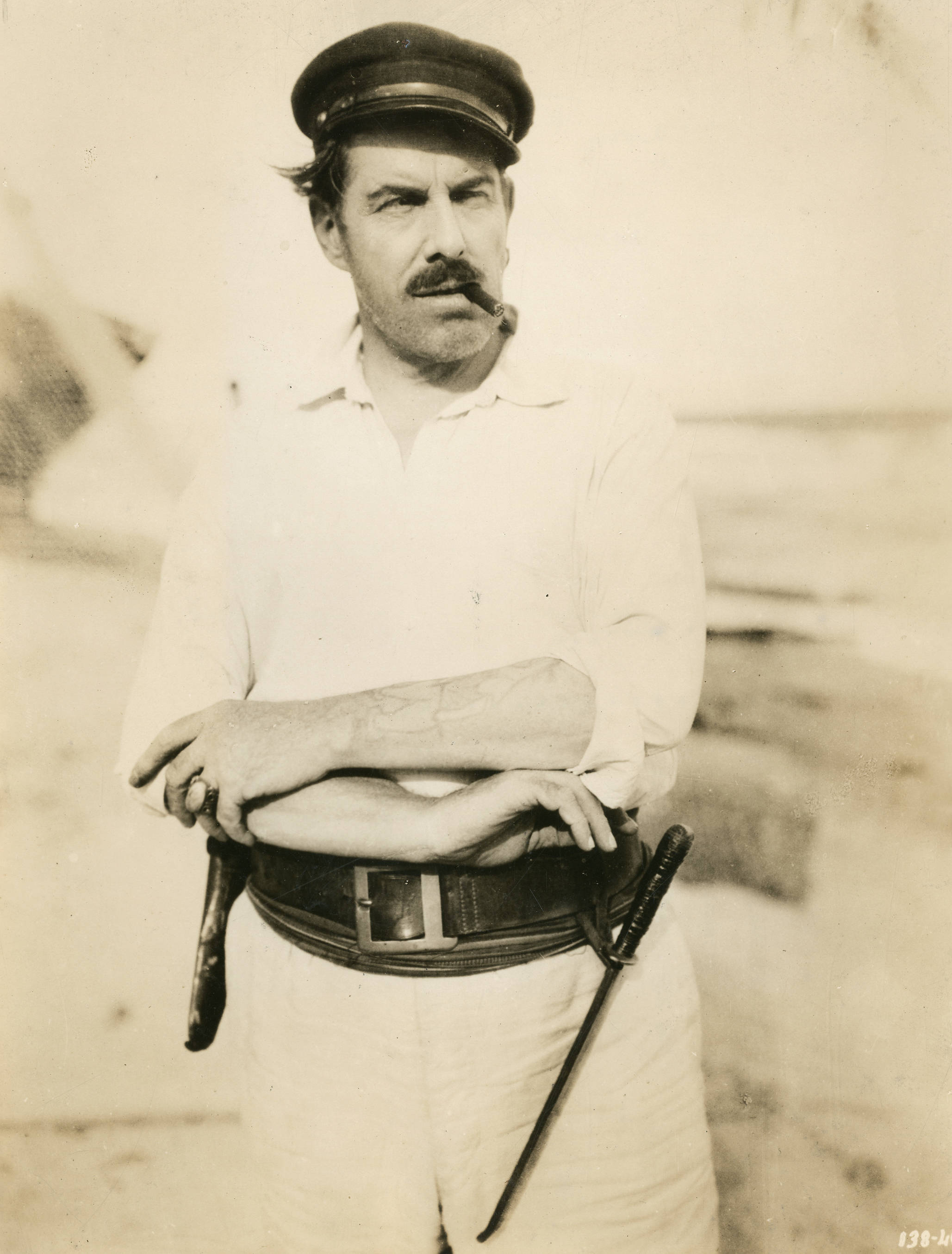 Harry T. Morey, film actor, from the American South Seas romantic drama film Where the Pavement Ends (1923). Subjects: actors, motion pictures